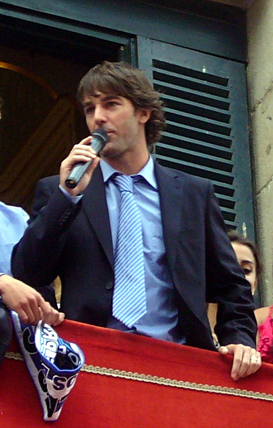 Abraham Paz (with microphone in hand) on the balcony of the City of Alicante during the celebrations for the rise of Hercules C. F. to First division in 2009/10 season.